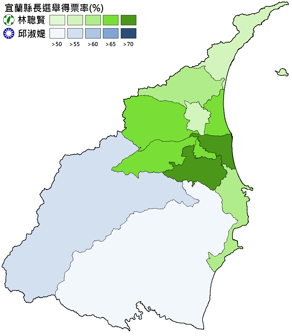 Yilan 2014